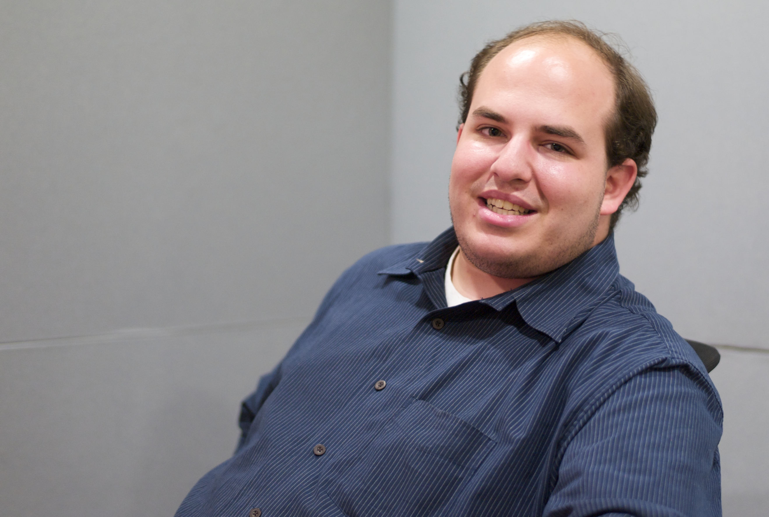 Brian Stelter covers television and digital media as a reporter for The New York Times. I first met Brian a couple of years ago in Atlanta, back when we were both still bloggers :-)